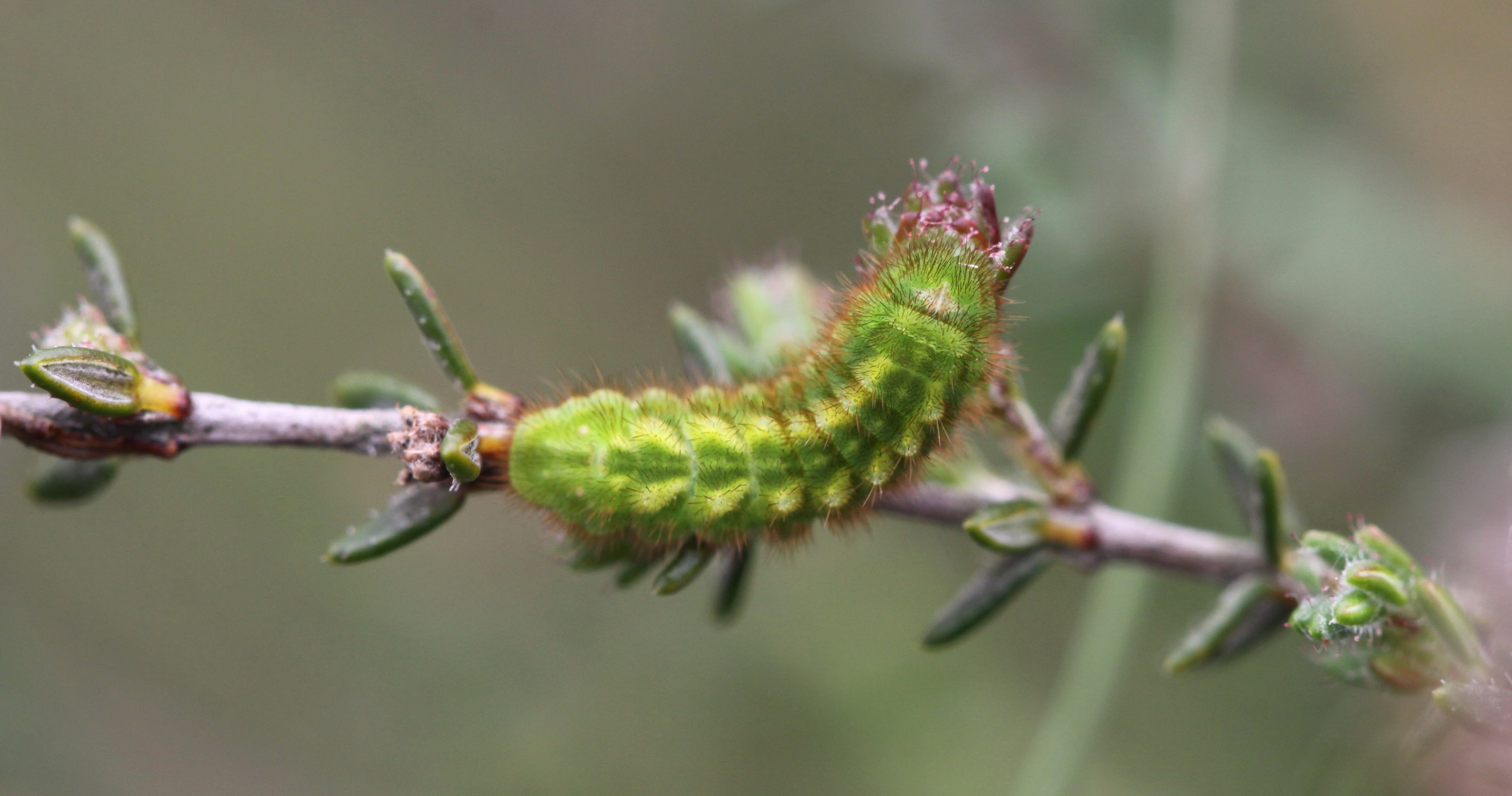 green hairstreak ( "Callophrys rubi" )